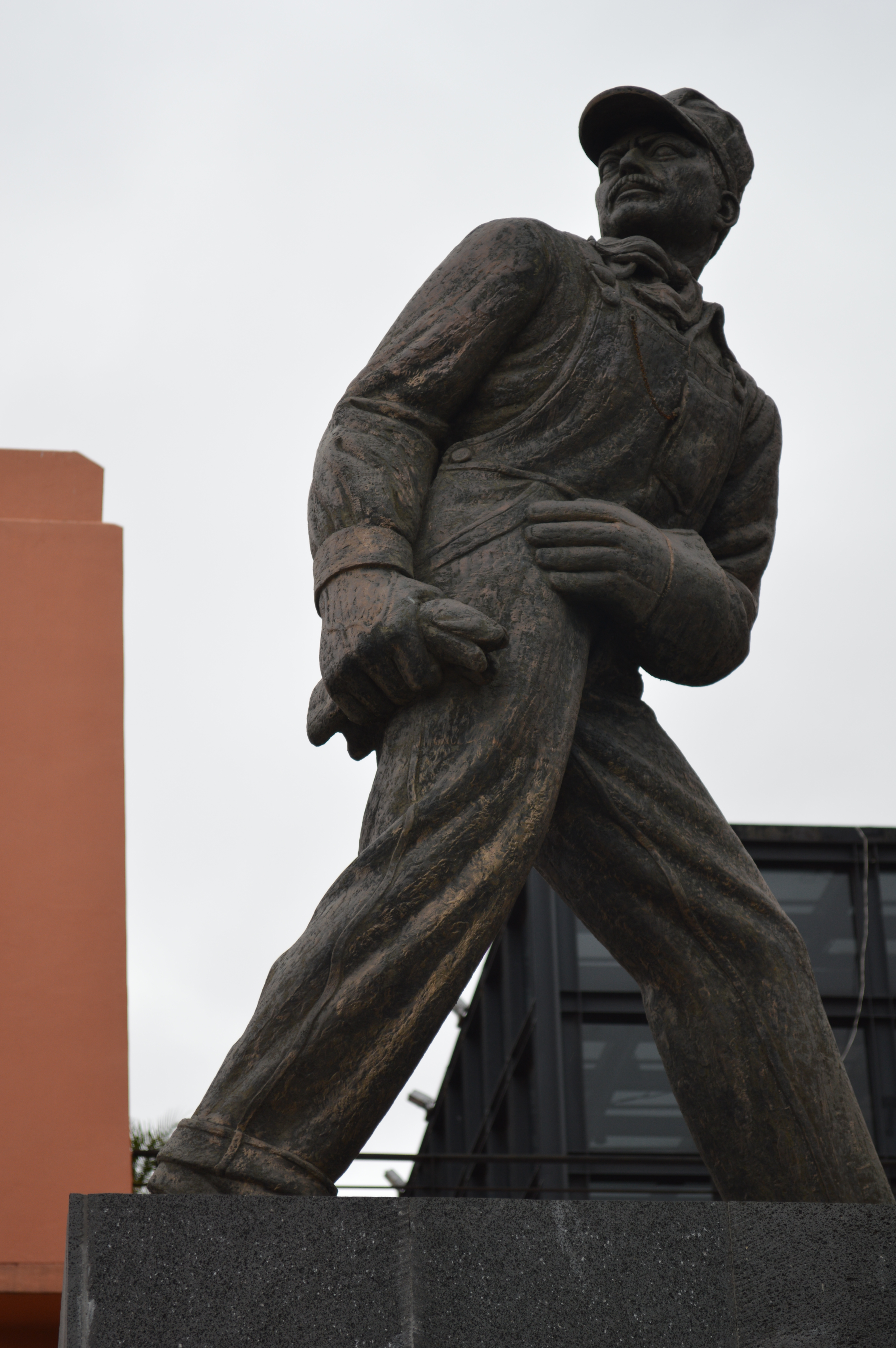 Statue of Jesus Garcia Corona at the Railway Museum (Museo de Ferrocarril) in San Luis Potosi, Mexico